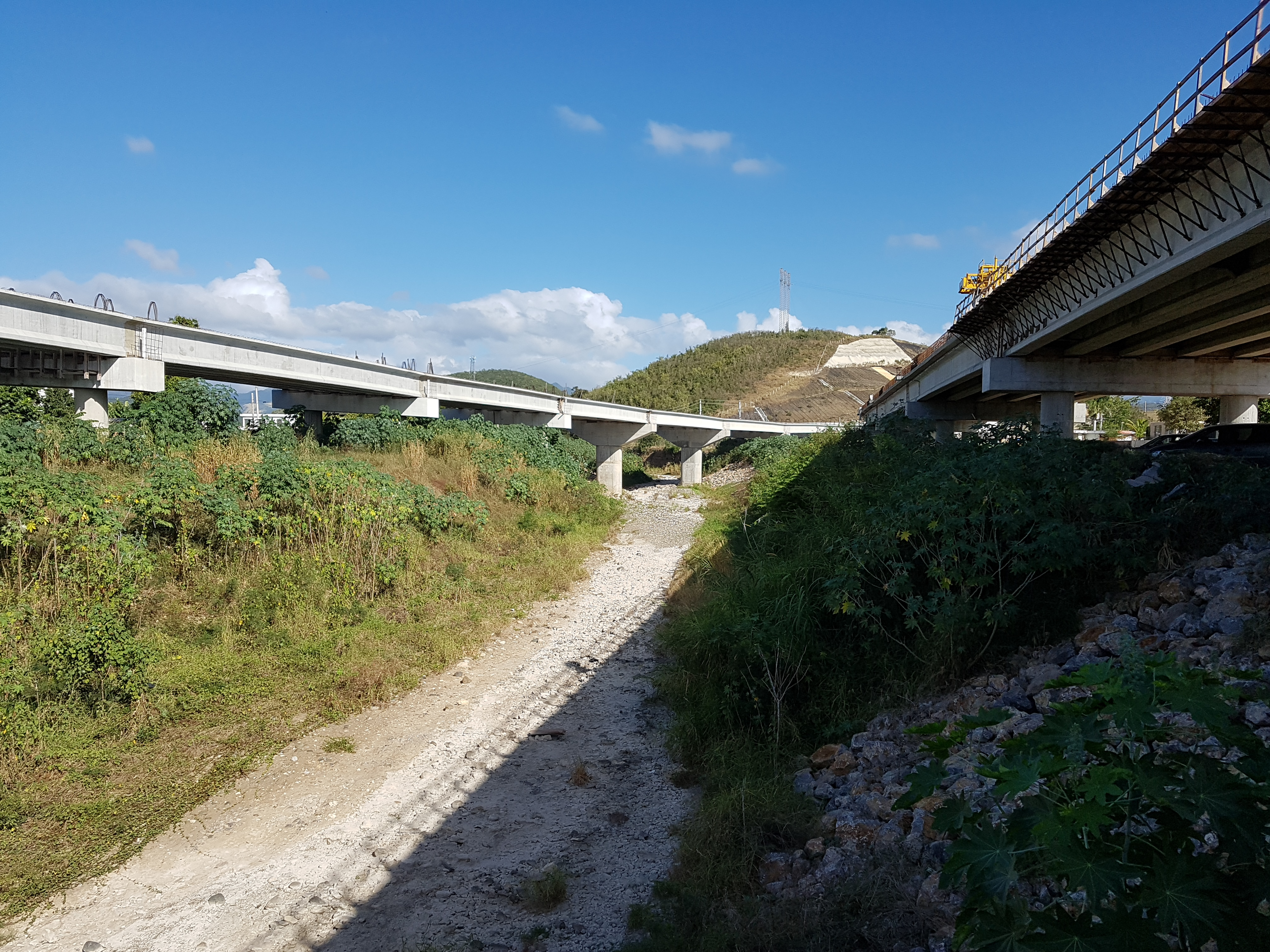 Río Pastillo (y PR-9 en construcción), mirando al norte, durante temporada seca, en Bo. Canas, Ponce, PR (20190102.095423)